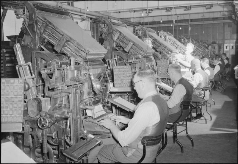 The Makings of a Modern Newspaper- the Production of 'the Daily Mail' in Wartime, London, UK, 1944 Once a story has been prepared by the sub-editors, it is blown through a tube to the copy desk in the composing room. Here we see a busy scene in the composing room of the Daily Mail, showing men at work on the linotype machines, setting the copy which has been passed to them by the copy desk.